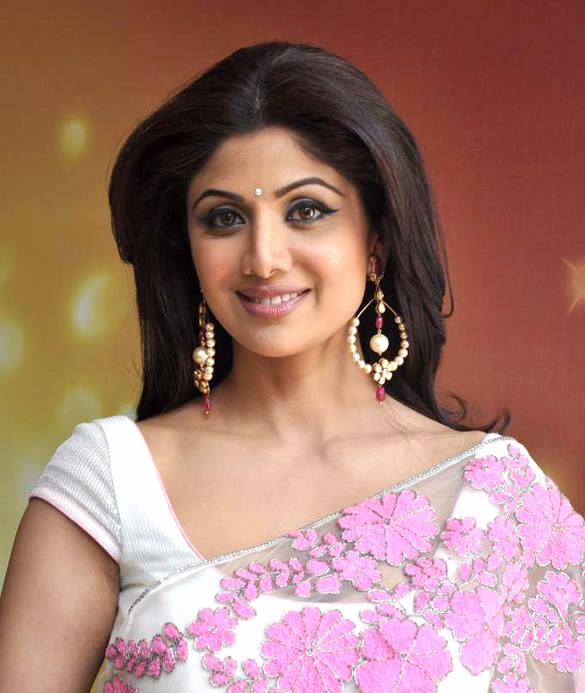 Shilpa Shetty with leading chefs on the sets of Nach Baliye 5